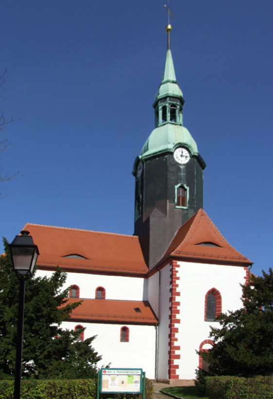 Church St. Kilien in Bad Lausick